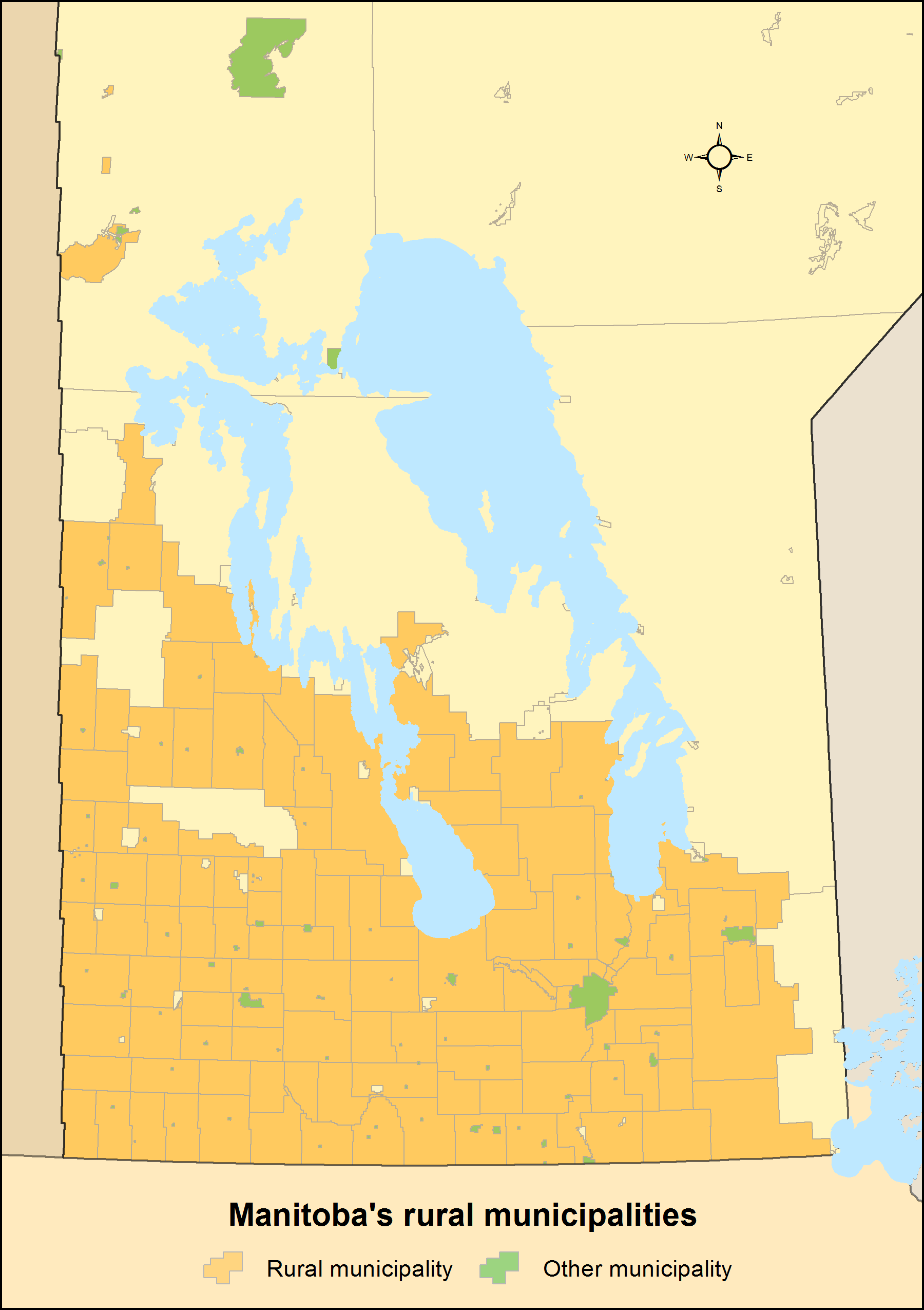 Distribution of Manitoba's 116 rural municipalities and 81 other municipalities (79 urban municipalities and 2 local government districts) utilizing Statistics Canada's census subdivisions from the 2011 census